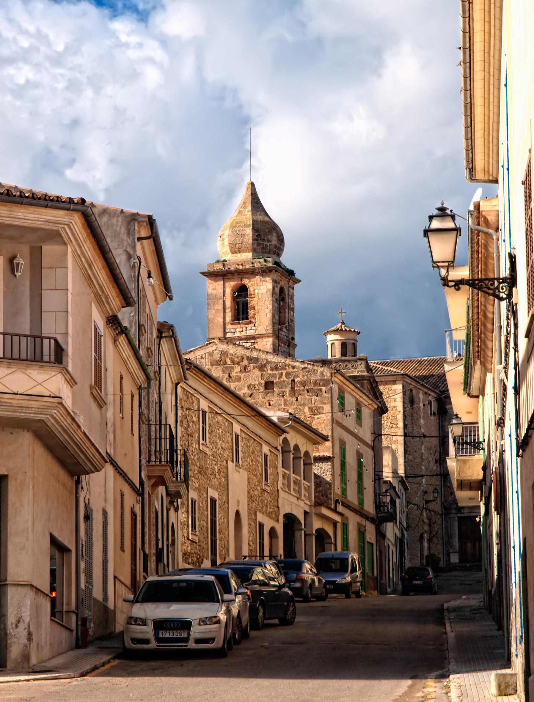 Streets of Maria de la Salut (Mallorca)